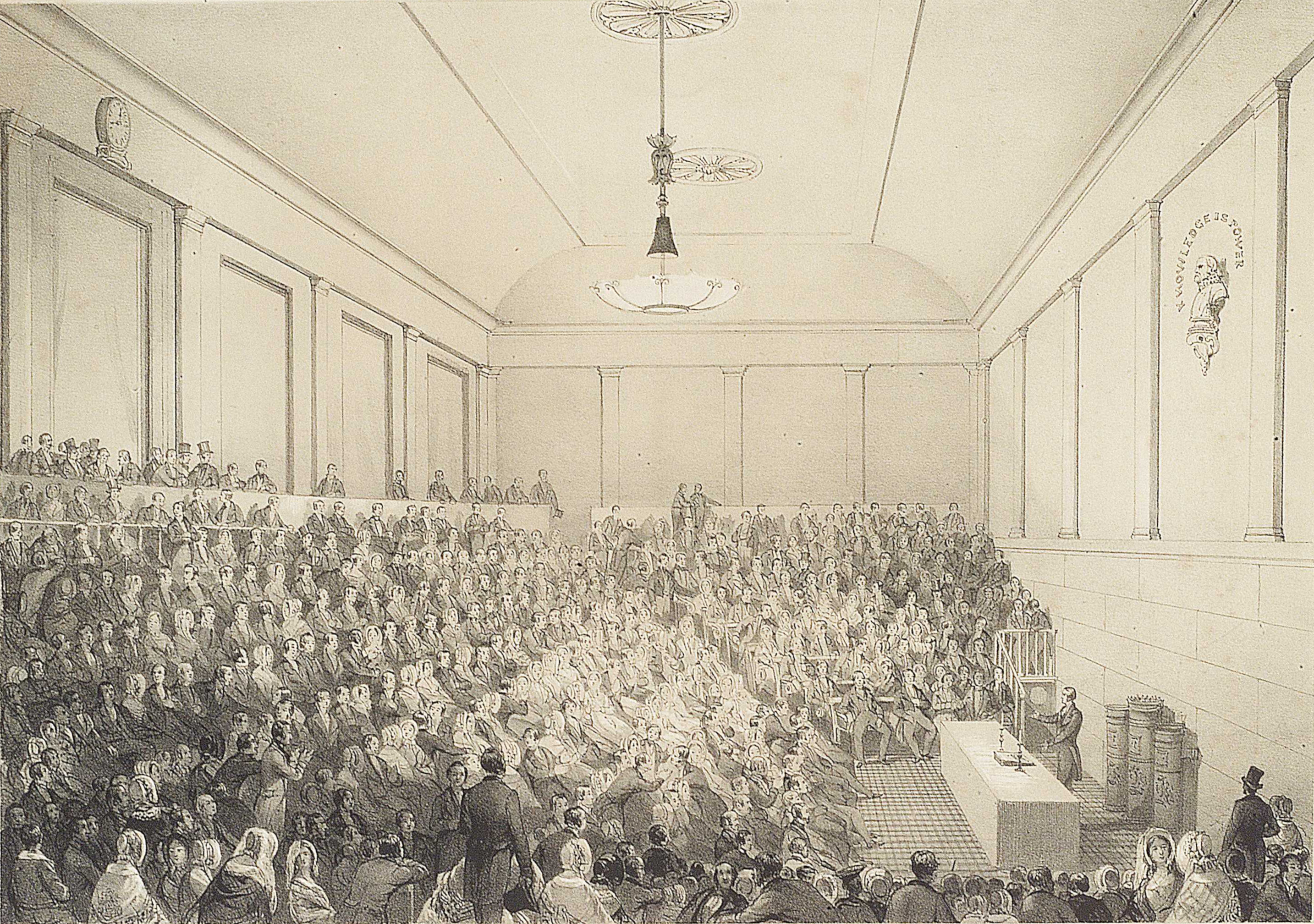 ecture-Hall of the Greenwich Society for the Diffusion of Useful Knowledge This lithograph shows an interior view of a lecture hall that once stood on Royal Hill, Greenwich. It shows a lecture underway, provided by the Greenwich branch of the Society for the Diffusion of Useful Knowledge. The young lecturer is commanding a full and respectably-dressed audience. He stands below a bust of Francis Bacon with the motto 'Knowledge is Power'. The Society for the Diffusion of Useful Knowledge was founded in 1826, chiefly at the instigation of the Whig lawyer and politician, Lord Brougham. It aimed to provide cheap educational literature for those who could not obtain formal teaching, and had a particular focus on scientific subjects. It inspired the foundation of many local branches, some of which sponsored lecture series as well as the distribution of SDUK publications. While the SDUK hoped to reach working classes, their audience tended to be middle class, as this print amply attests. The Hall shown was built by George Smith, a local Greenwich architect who also built Greenwich Railway Station and did much work for the Morden College estate. It stood amid other buildings on the north-west side of Royal Hill, where it joins Greenwich High Road, on part of the site now occupied by the 1939 Town Hall (now Meridian House). Royal Hill was widened when the site was cleared for the new Town Hall and the foundations of what preceded it run out to near the centre of present road. Lecture-Hall of the Greenwich Society for the Diffusion of Useful Knowledge / Opened Wednesday, 15th Feby 1843.